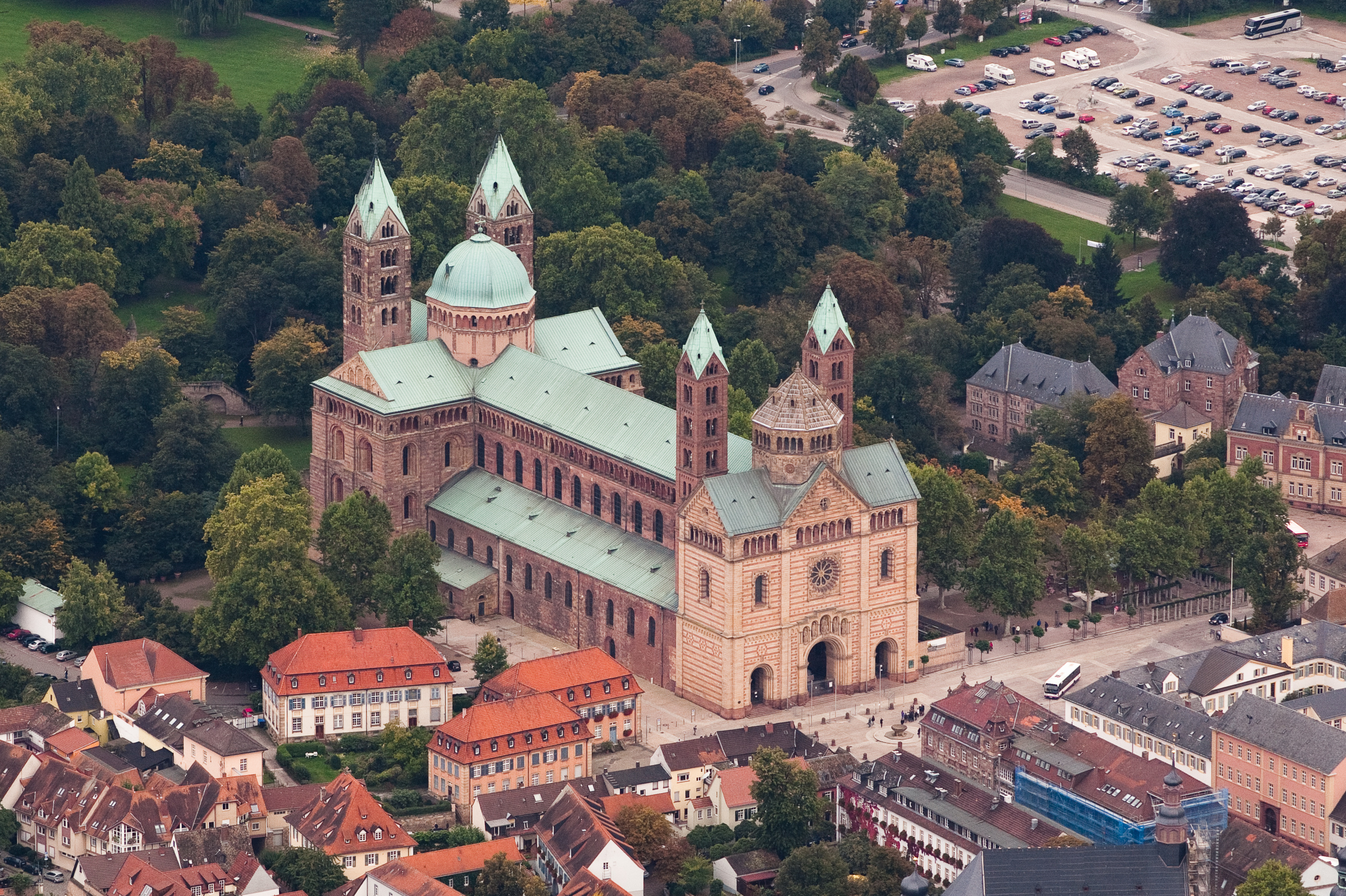 Aerial photograph of the Speyer Cathedral